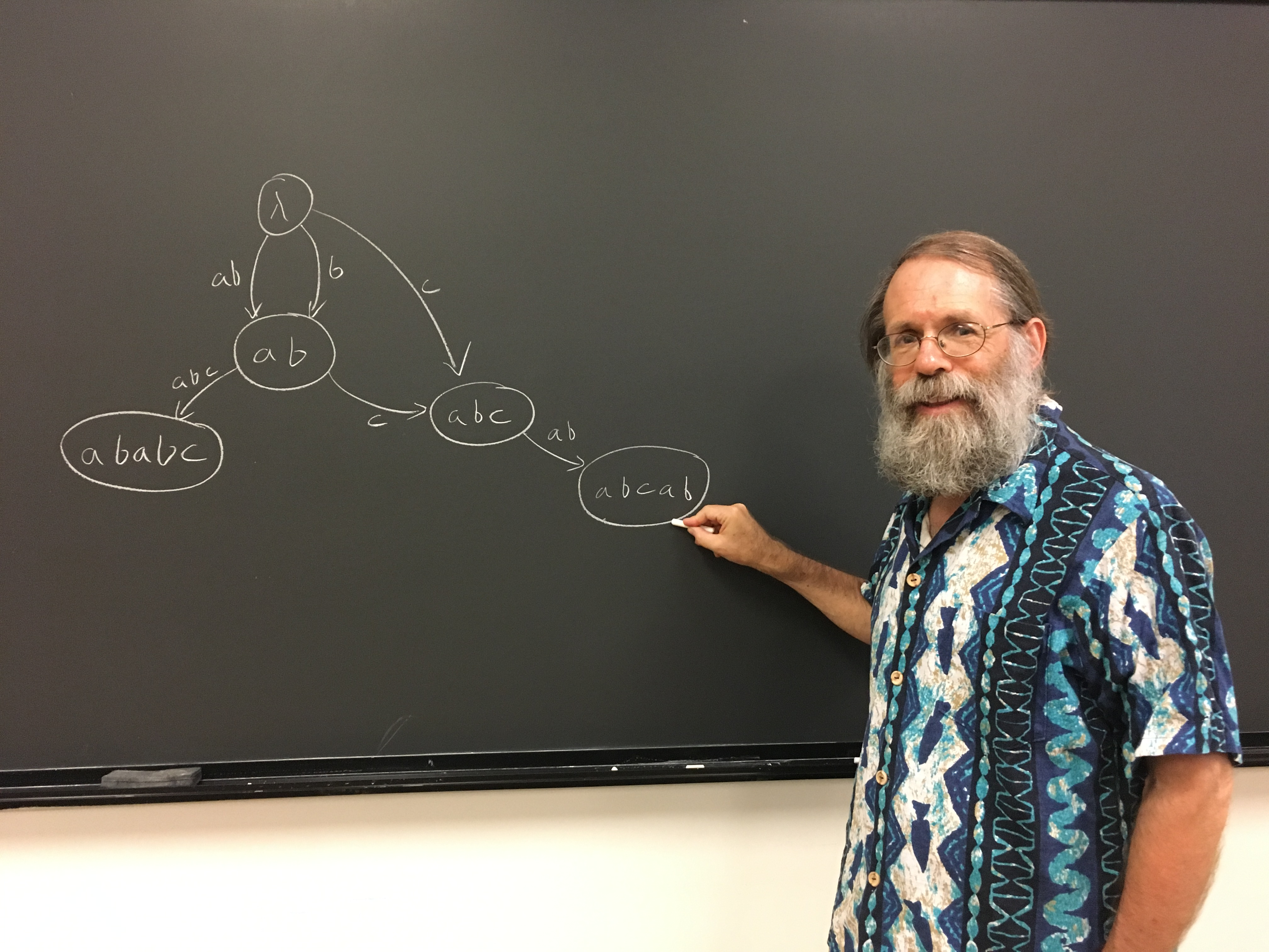 Anselm Blumer with compact directed acyclic word graph (CDAWG)